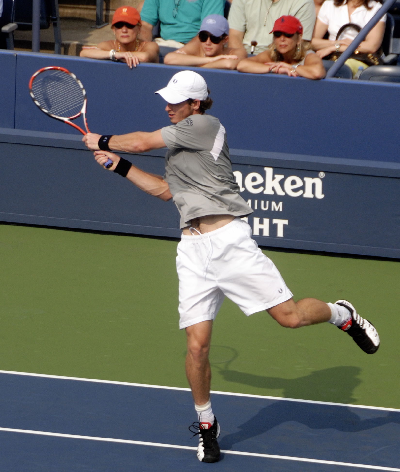 Andy Murray at the 2008 US Open